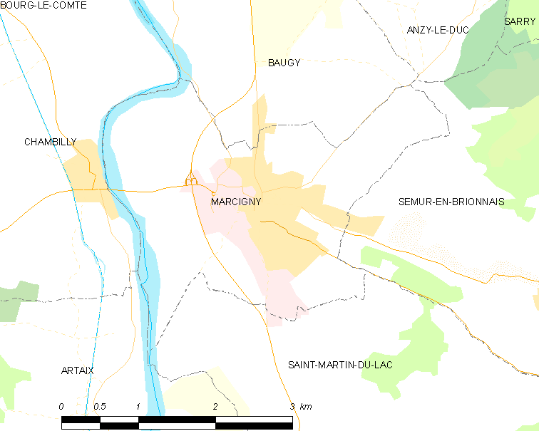 Map of French municipality